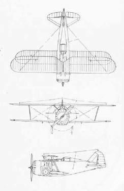 Three-side drawing of a Grumman F3F-2 fighter.